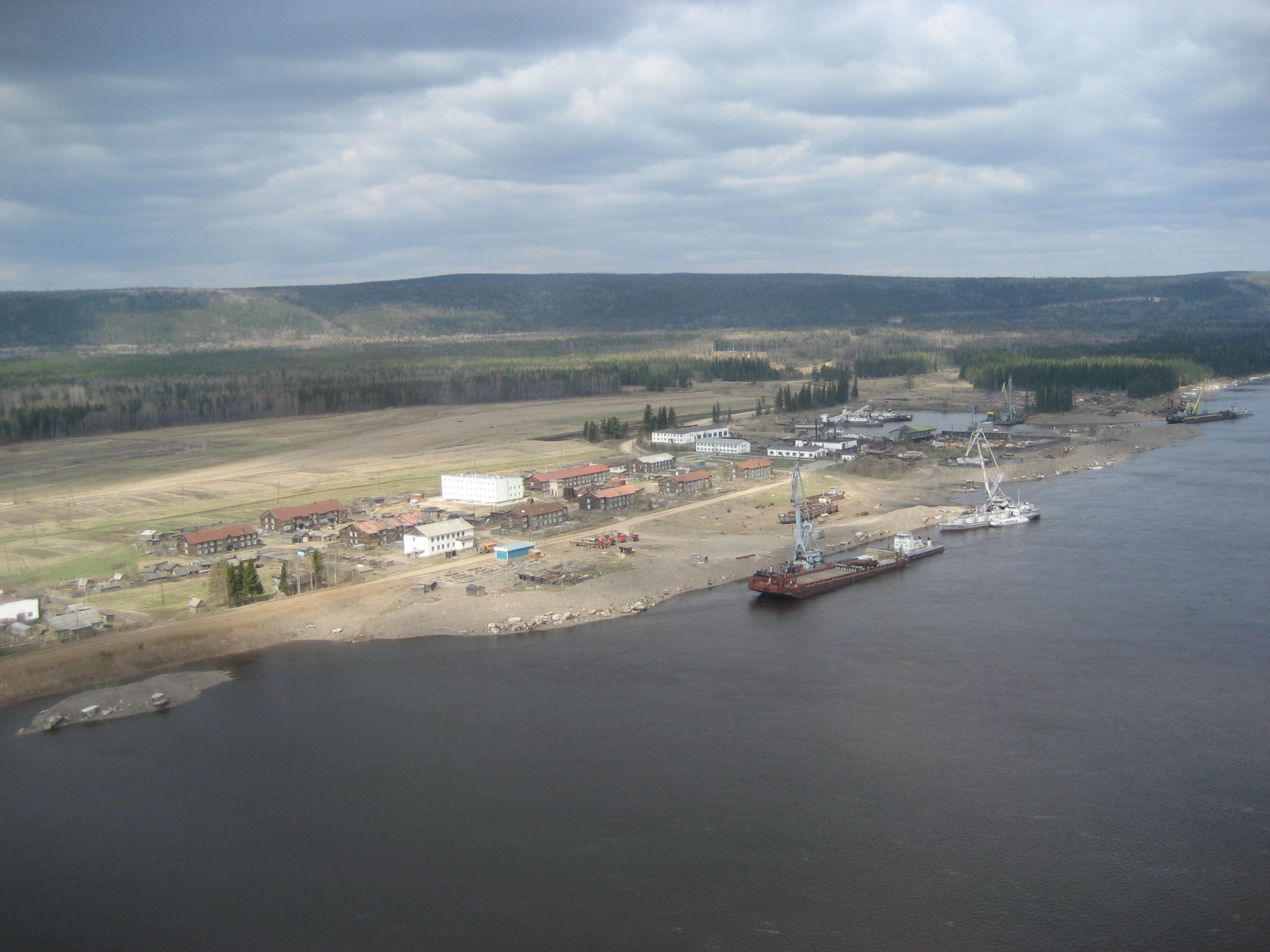 Vitim (Sacha, Siberia)